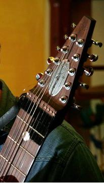 Chapman Stick Head